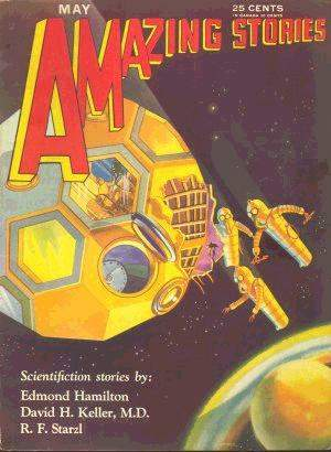 Cover of the pulp magazine Amazing Stories (May 1930, vol. 5, no. 2).